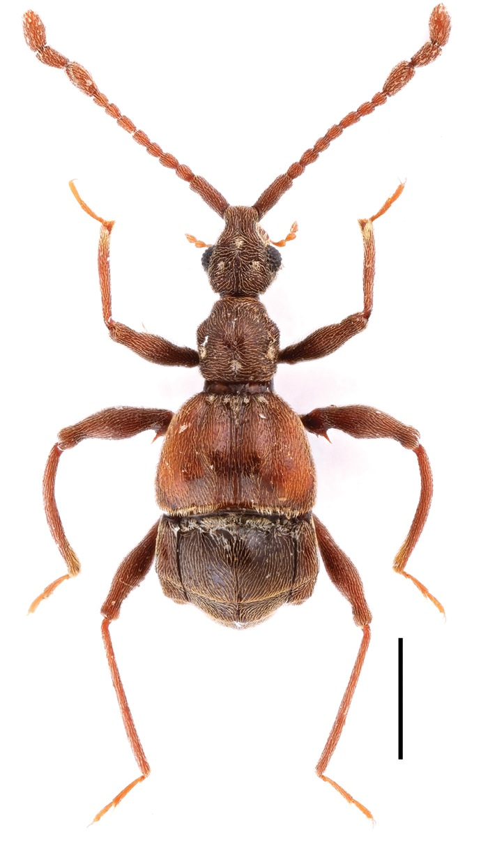 Male habitus of Pselaphodes erlangshanus. Scale: 1.0 mm.